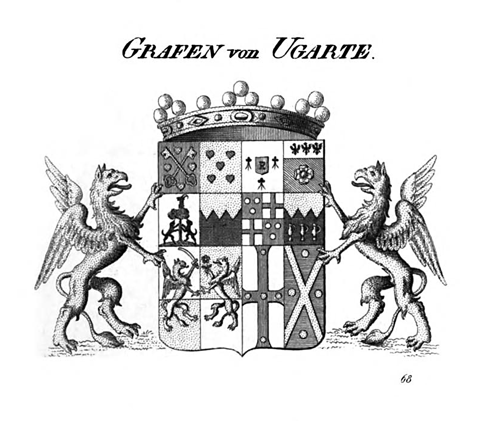 Coat of arms of Ugarte (Counts)